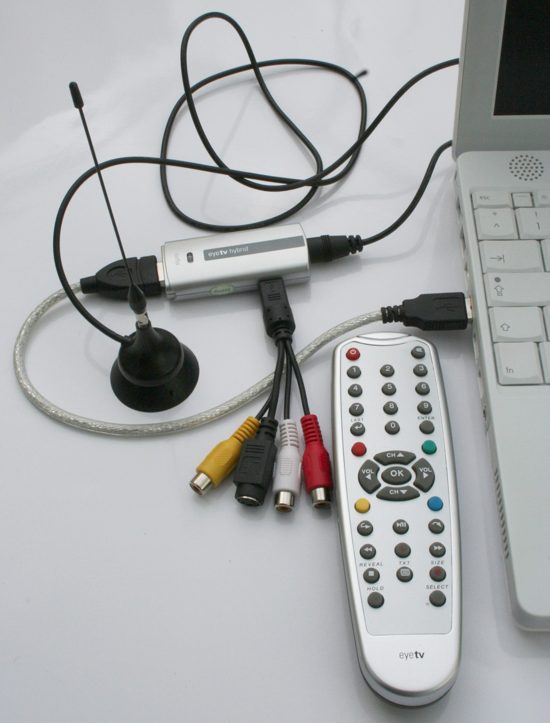 DVB-T-Stick connected to an iBook via USB